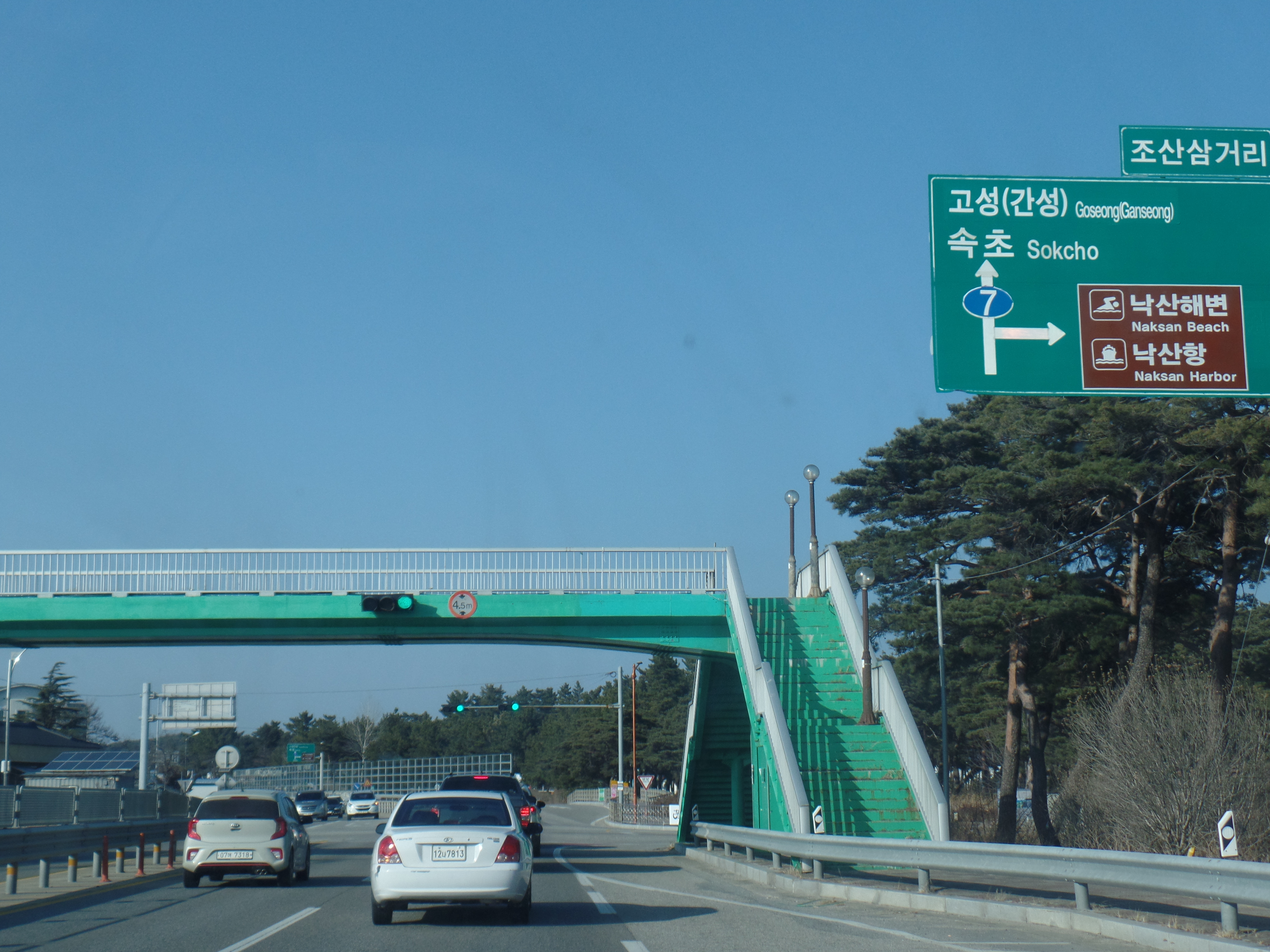 Republic of Korea National Route 7 Josan Tway Intersection(Northward Direction)